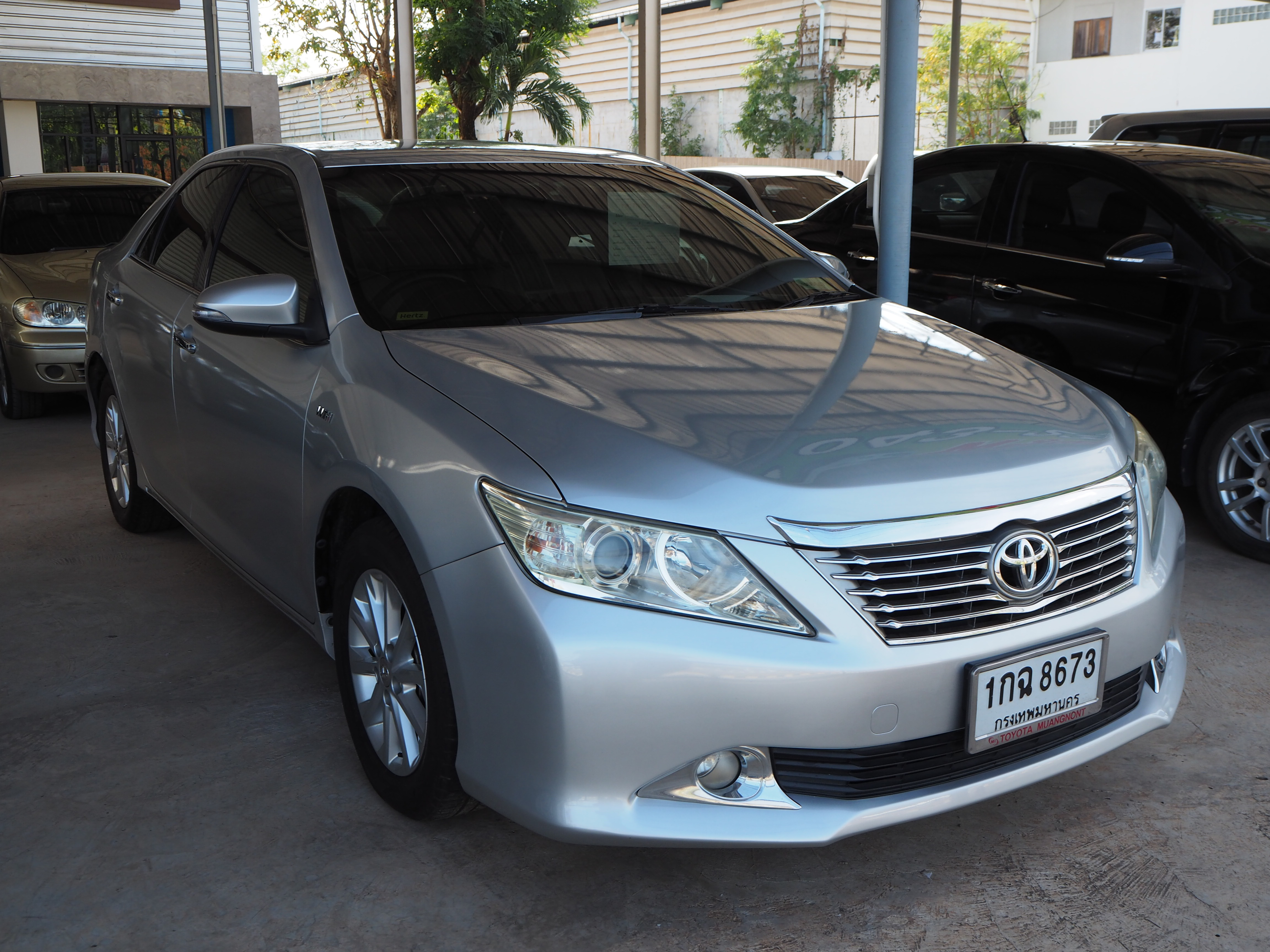 2012 Toyota Camry 2.0G in Khon Kaen, Thailand.